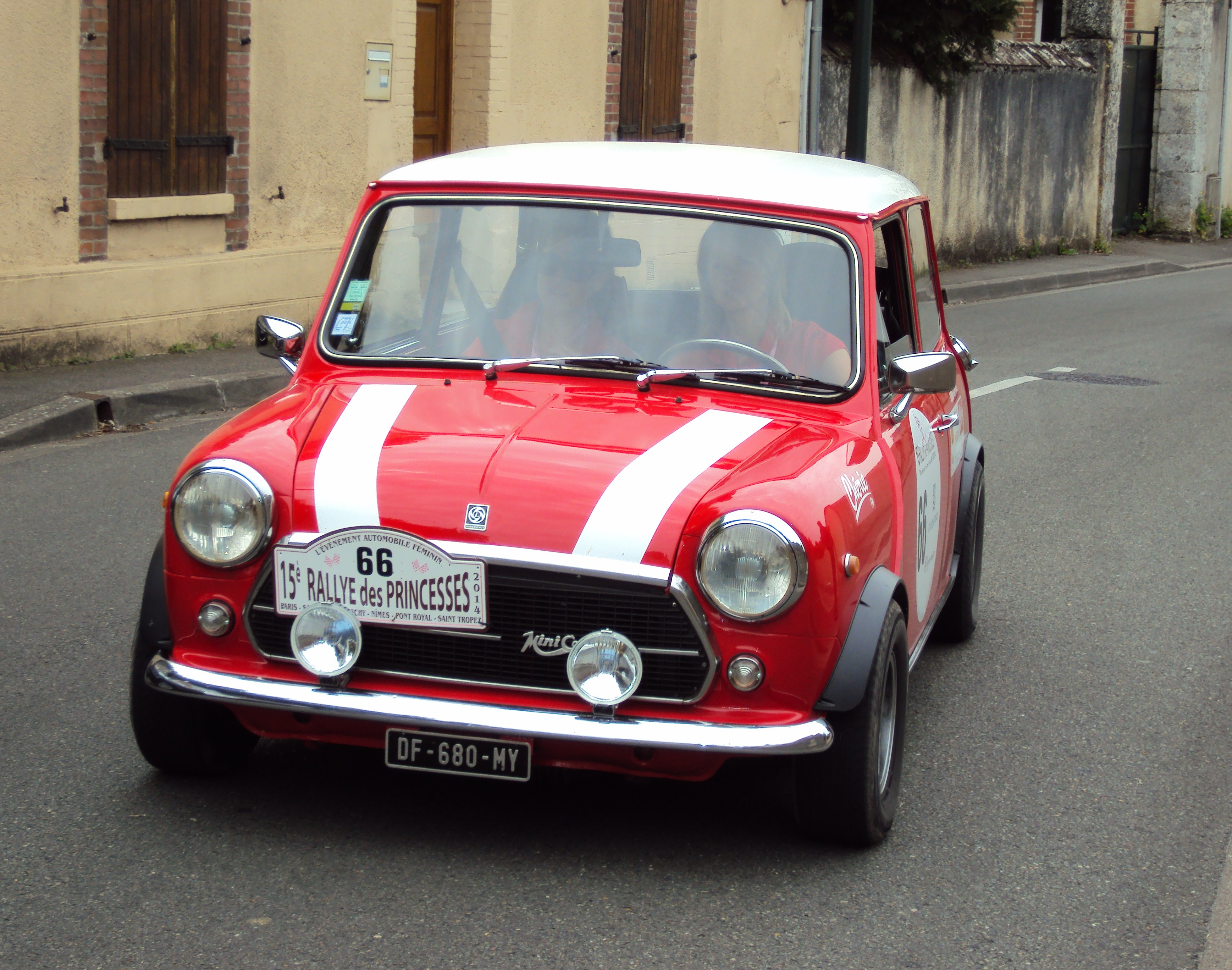 A 1975 Innocenti Mini at the 2014 Rallye des Princesses.